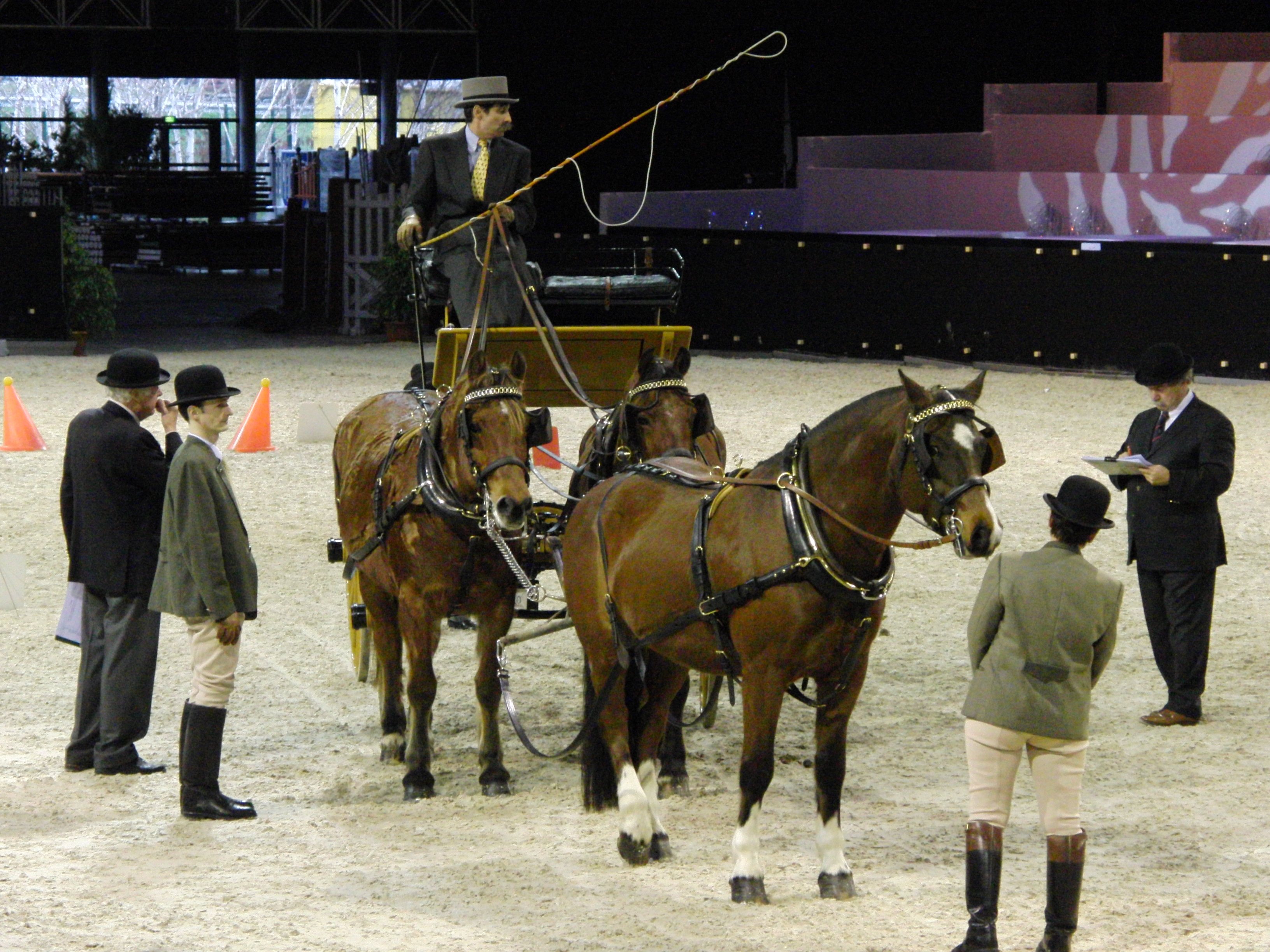 Horse Driving - Freiberger - Paris' Cup d'attelage de tradition - Salon du cheval de Paris 2009, France